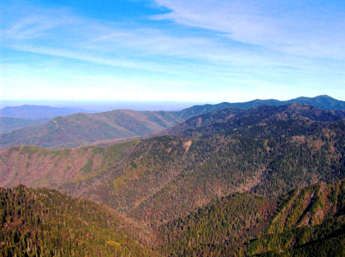 Looking northeast from the Jumpoff, a cliff on the northeastern slope of Mount Kephart in the Great Smoky Mountains.